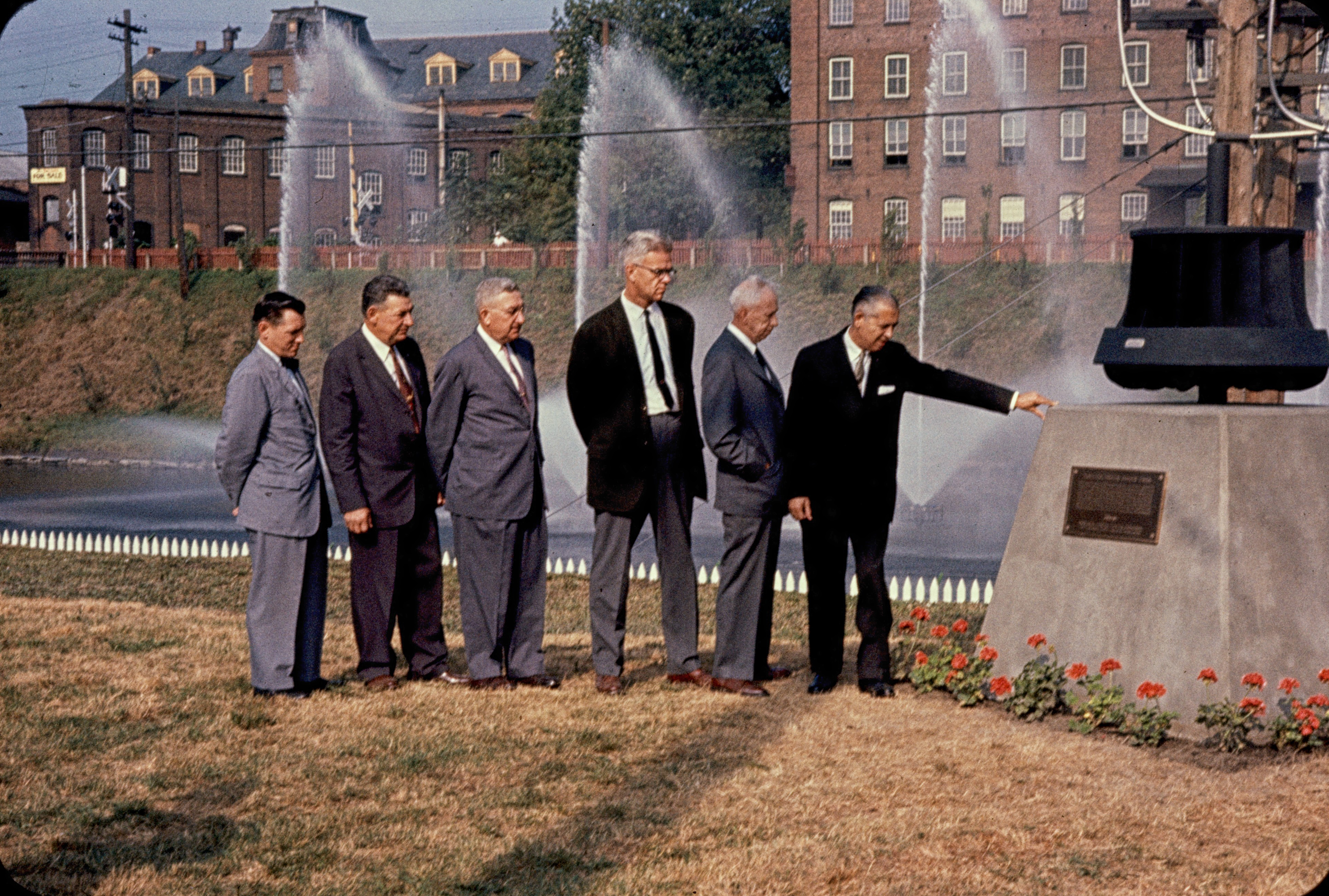 Dedication of the Holyoke Water Power Park monument, with a Holyoke-Hercules turbine wheel, and a plaque reading- "Dedicated to the vision and toil of Holyoke's earliest citizens who constructed this unique water power system which transformed a farming hamlet into the industrial city of Holyoke. After more than a century of service, this canal system continues to bring the benefits of the Connecticut River to this community. It stands as a continuous monument to the men who conceived it and to the men who built it...with picks, shovels, and perseverance. Holyoke Water Power Company 1960 - 111th Anniversary Year of the Canal System." Photo appears to show employees of the Holyoke Water Power Company, including President Roger E. Barrett, Jr. (center-right), William Skinner, a member of the board of directors (2nd right), and Mayor Samuel Resnic (right)